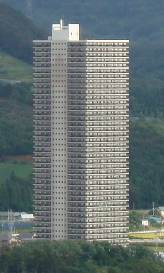 The Sky Tower 41, a high-rise aprtment building, in Kaminoyama city, Yamagata prefecture, Japan